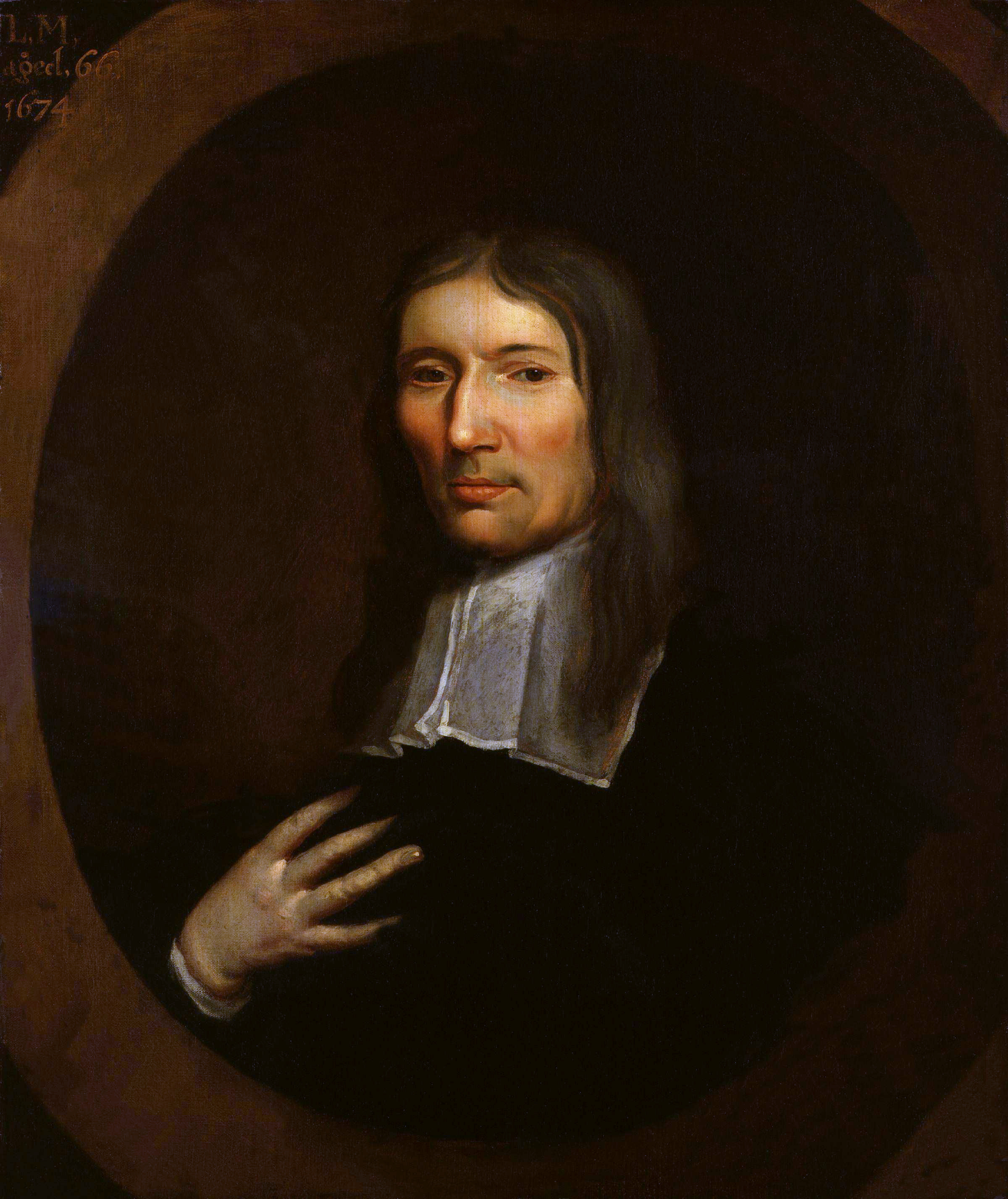 Lodowicke Muggleton, by William Wood (floruit 1674). All images in this batch have a known author with unknown death date, but according to the NPG's website the author was floruit (known to be active) prior to 1859, and so is reasonably presumed dead by 1939.